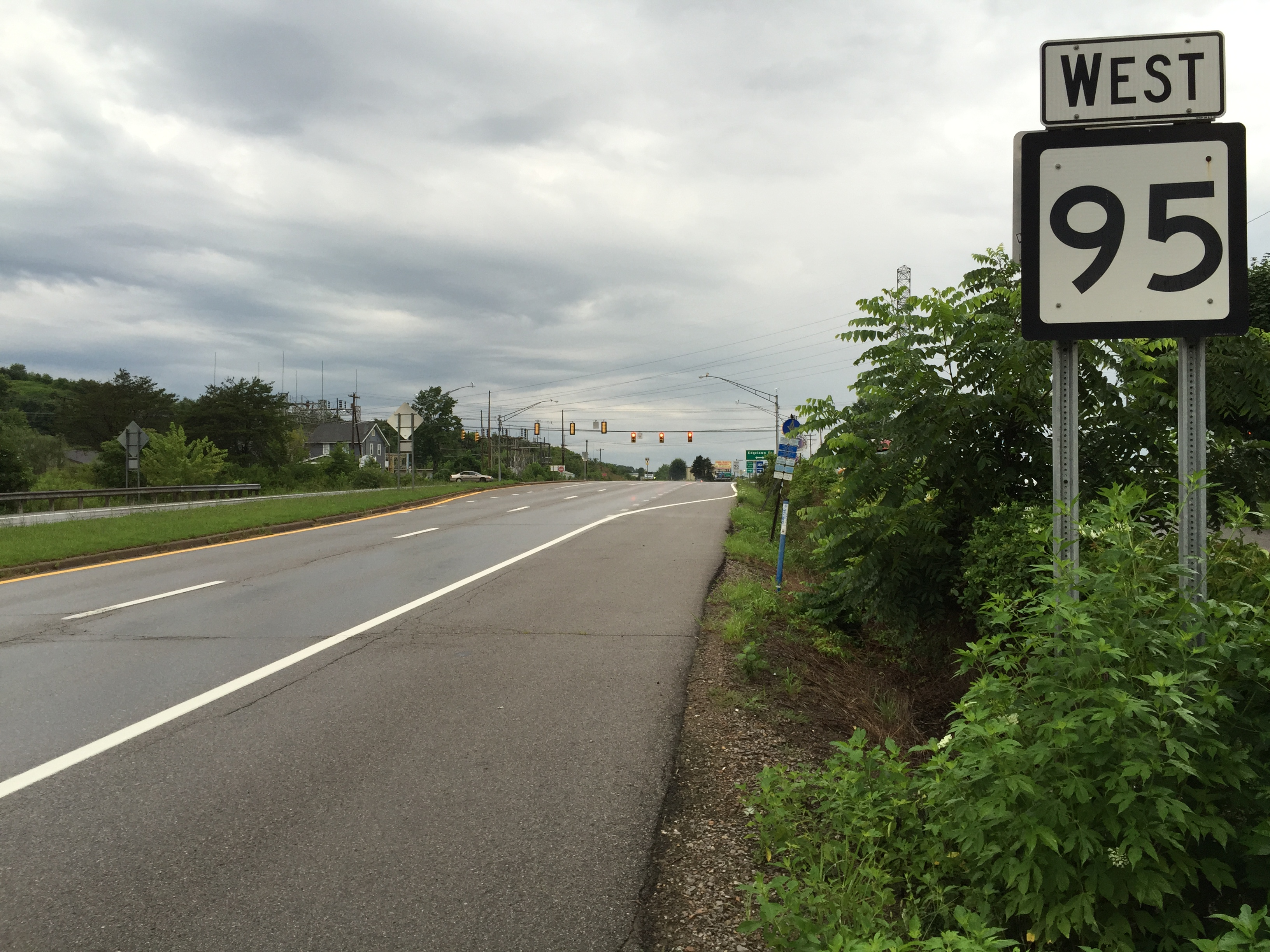 View west along West Virginia State Route 95 (Camden Avenue) between Interstate 77 and Edgelawn Street in Parkersburg, Wood County, West Virginia